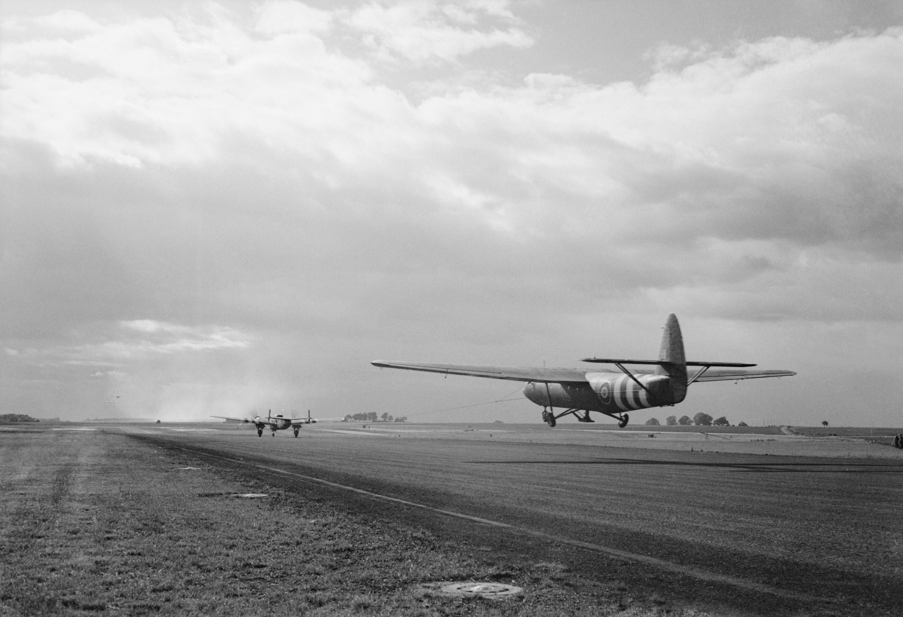 D-day - British Forces during the Invasion of Normandy 6 June 1944 A Horsa glider carrying troops of 6th Airlanding Brigade is towed aloft by an Armstrong Whitworth Albemarle at an RAF airfield, part of 6th Airborne Division's second lift in the evening of 6 June 1944.